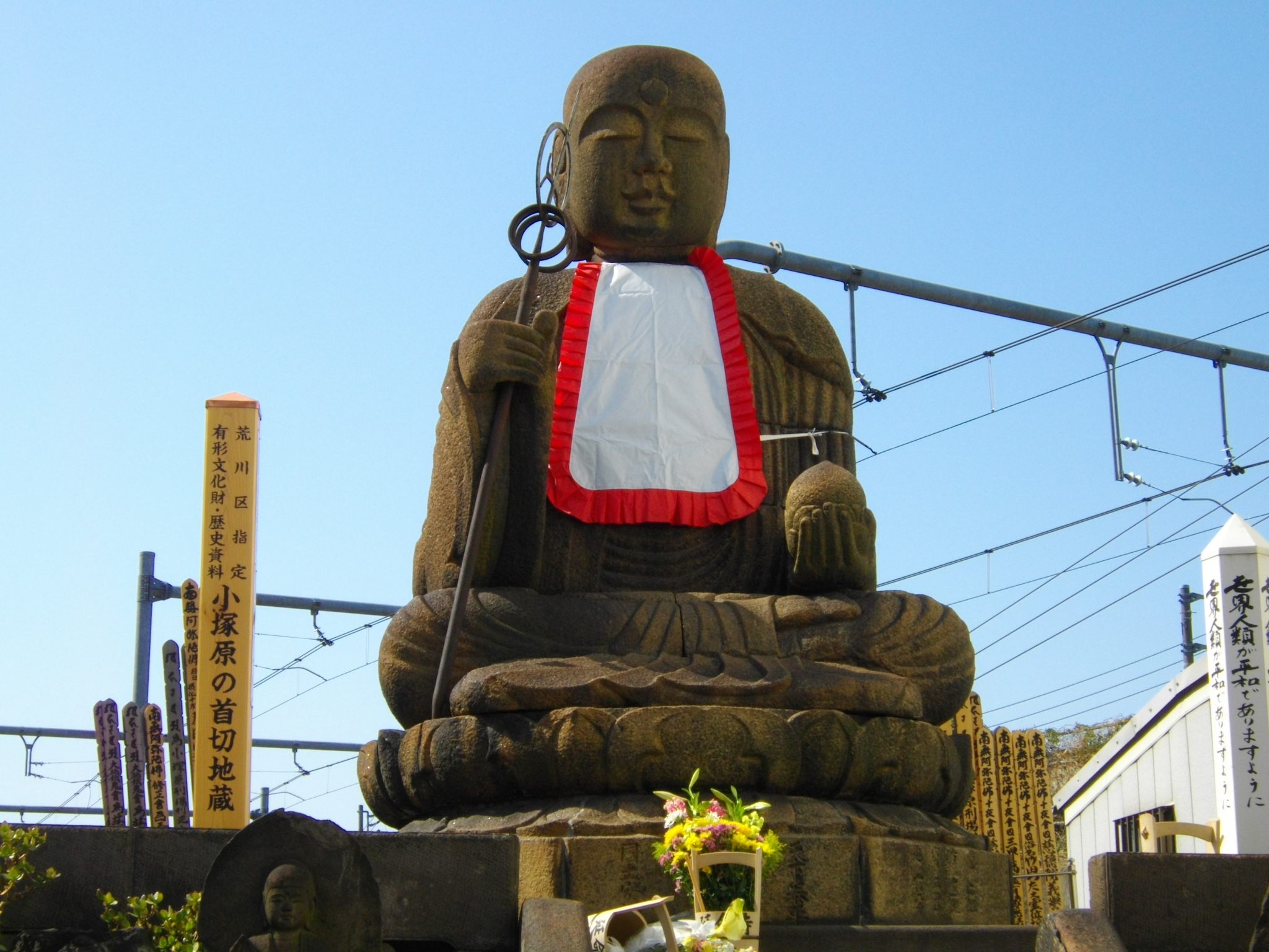 Kubikiri Jizo